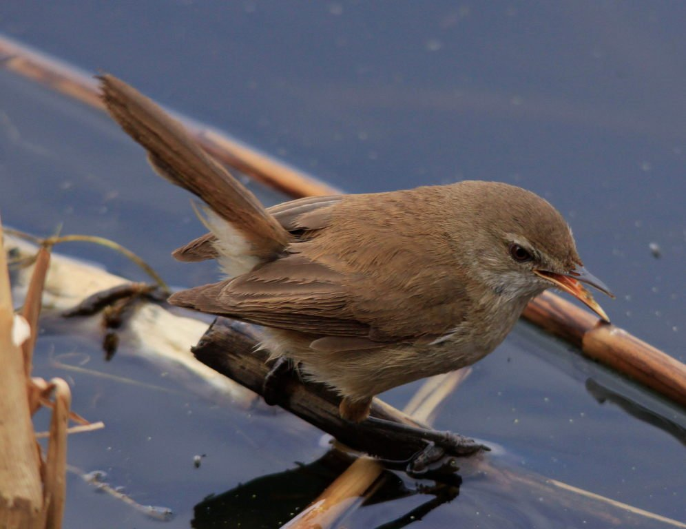 African Reed-warbler, Acrocephalus baeticatus at Rondebult Nature Reserve, Gauteng, South Africa - August.